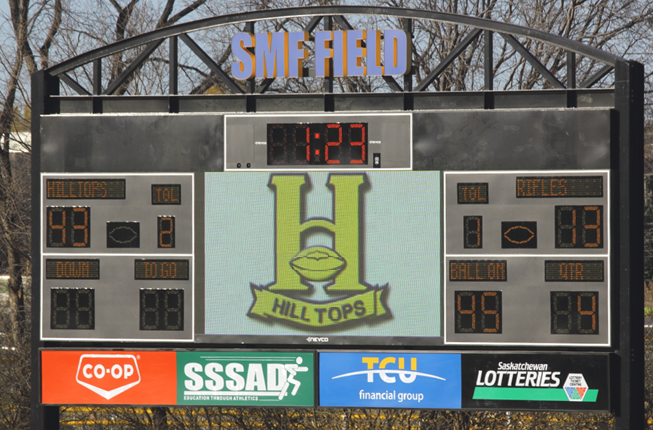 Final Score on the new scoreboard at the playoff game between the Winnipeg Rifles and Saskatoon Hilltops on October 19, 2014 at the Saskatoon Minor Football Field] SMF (was Gordie Howe Field). Game finalized with a 43 to 13 score in favour of the Hilltops. The Hilltops proceed to the Prairie Football Conference PFC finals on Sunday October 26, 2014